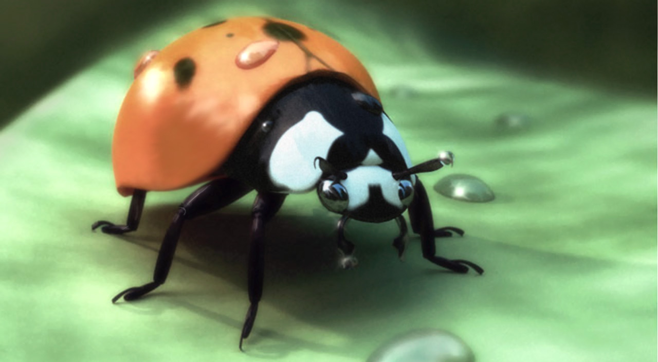 "Rain drops are still falling on my antennas" by Jyrki Ihalainen. 3D image created in Art of Illusion, a free software package.